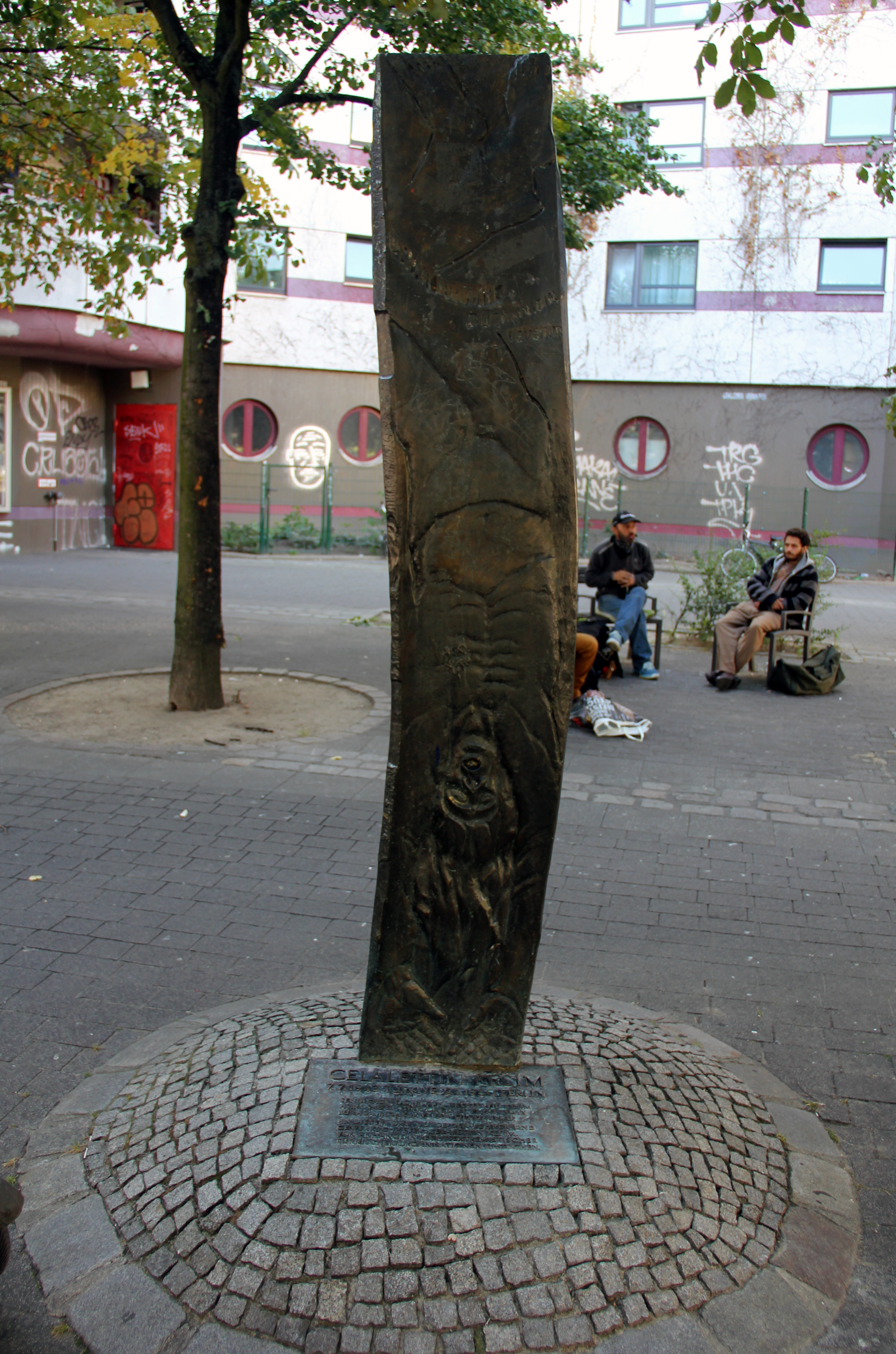 Steles, Celalettin Kesim by Hanefi Yeter, 1991, Kottbusser Tor, Berlin-Kreuzberg, Germany